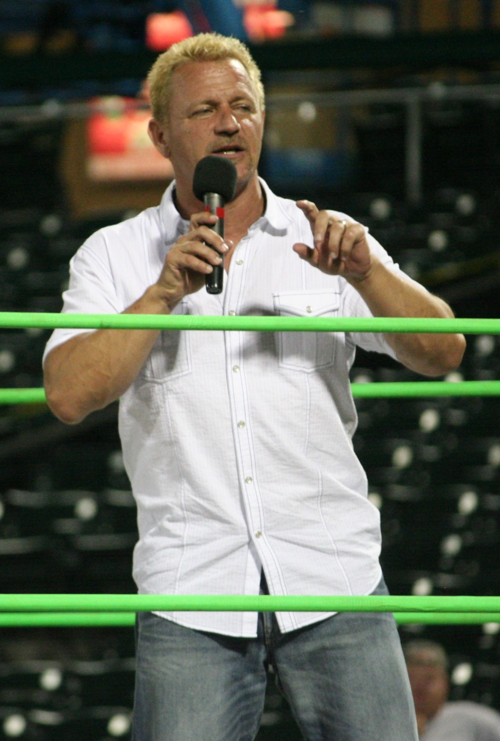 This image shows professional wrestler and professional wrestling promoter Jeff Jarrett at a Global Force Wrestling (GFW) show in June 2015.